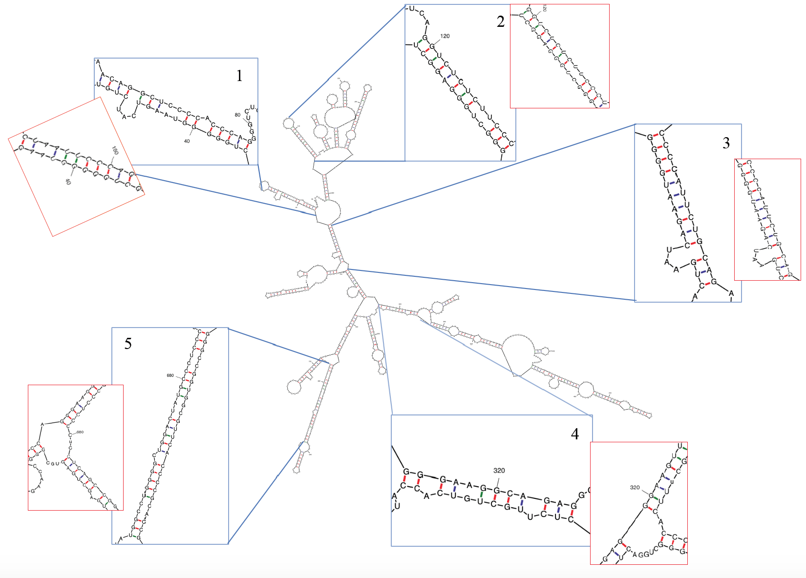 A folded 5’ UTR conformation of C9orf50 was generated using the 5’ UTR and some of the promoter region with the mFold RNA folding form. Five areas are enlarged to show base pairing of low energy structures compared to the folded version of the same sequence in gorillas shown in red. The total dG is -323.4 kcal/mol for humans and -311.3 kcal/mol for gorillas. Areas 1, 2, and 3 show similarly conserved structures between humans and gorillas.